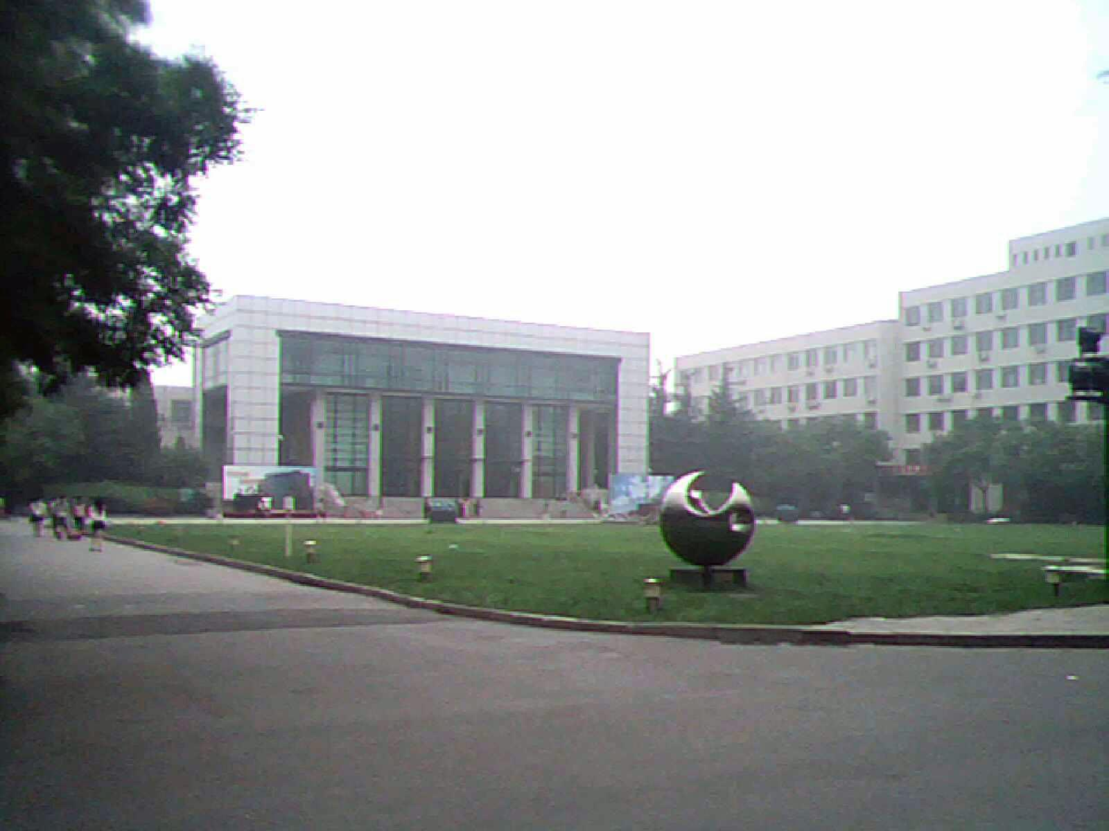 Beijing University of Technology campus